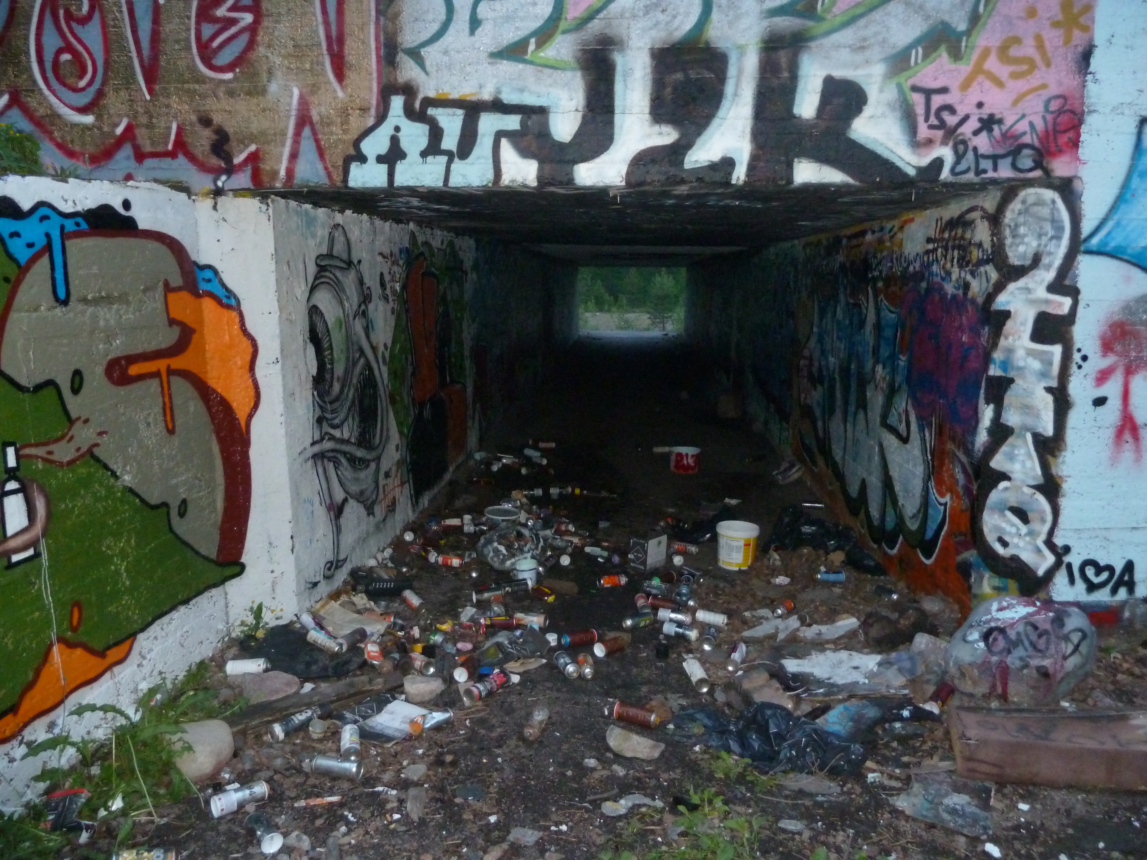 Graffities and empty spray cans in Lahti, Finland